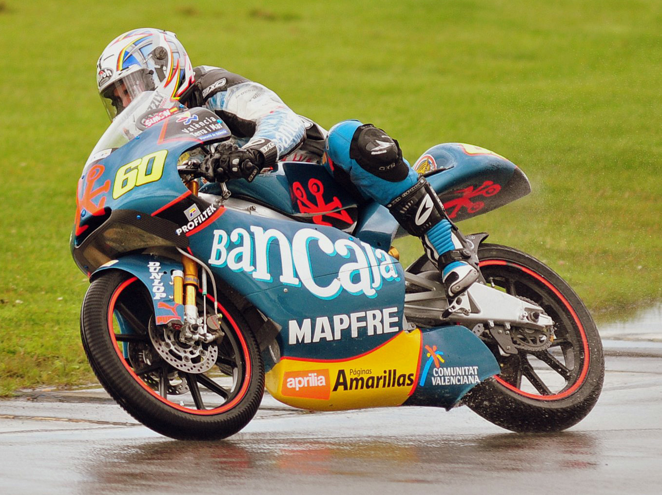 Julián Simón at the 2009 British motorcycle Grand Prix